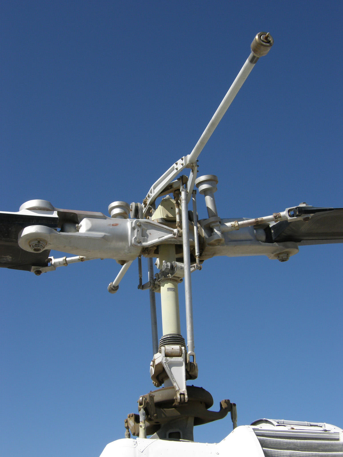 Bell UH-1B/204 main rotor head and controls